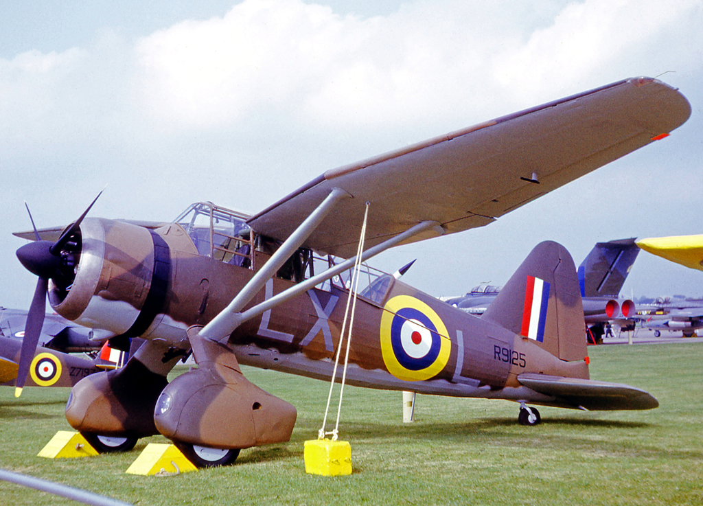 Westland Lysander III R9125 wearing the LX-L code of 225 Squadron RAF at RAF Abingdon in 1968